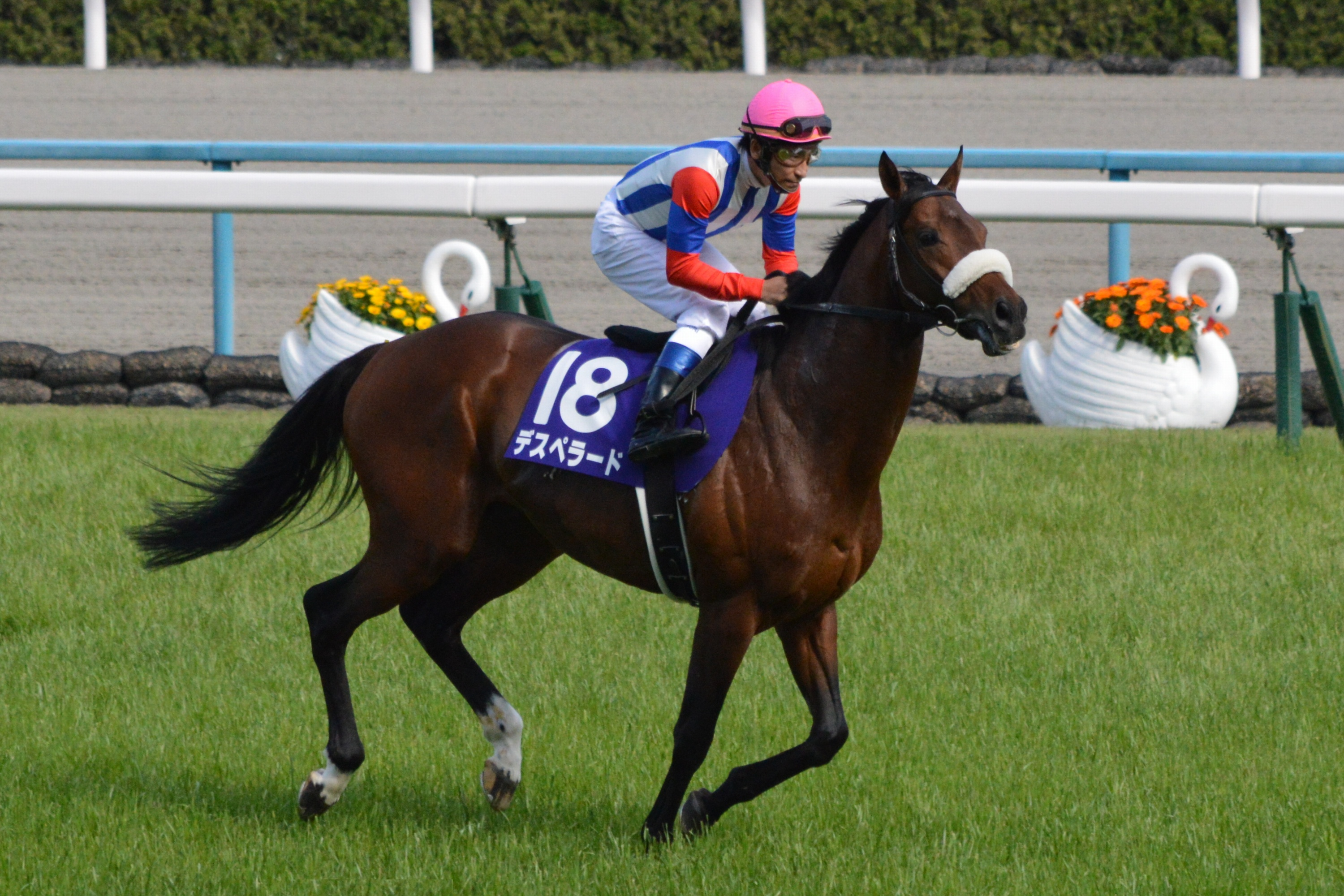 Japanese race horse Desperado at Kyoto racecourse. Kyoto (JPN) 04 May 2014 Tenno Sho (Spring) (Grade 1) (4yo+) (Turf) 2m Firm RankHorse NameOddsAgeWgtTrainerJockey1stFenomeno (JPN)105/10H59-2Hirofumi TodaMasayoshi Ebina2ndWin Variation (JPN)11/2H69-2Masahiro MatsunagaKoshiro Take3rdHokko Brave (JPN)101/1H69-2Yasutoshi MatsunagaHironobu Tanabe4th - 16th/omission17thDesperado (JPN)26/1H69-2Akio AdachiNorihiro Yokoyama